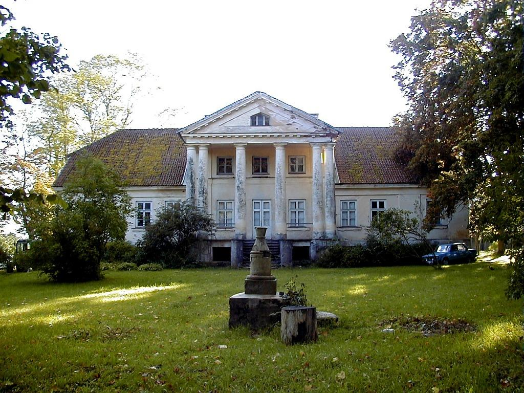 Padure Manor